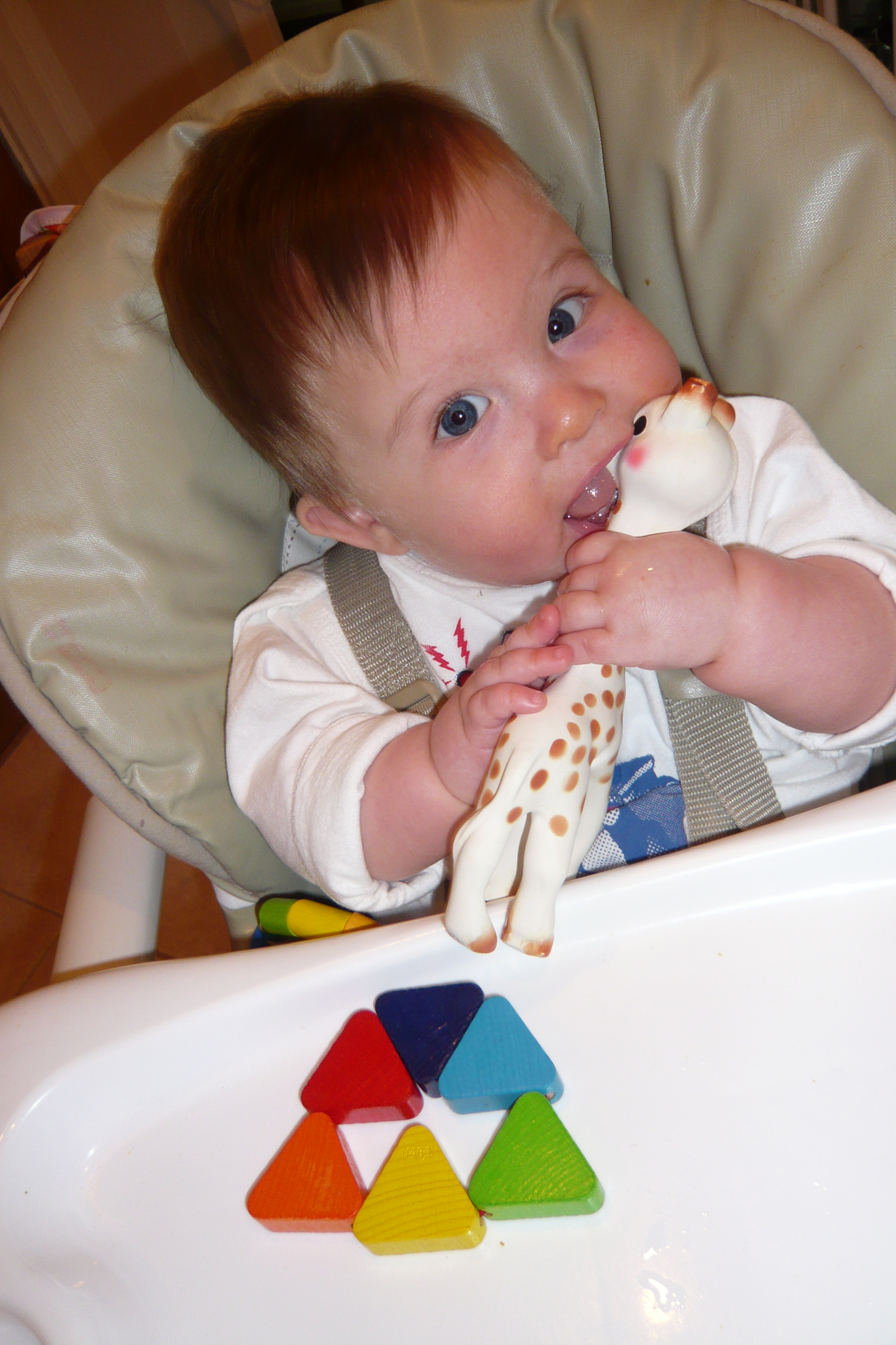 David and Isaac love Sophie the Giraffe! Their top two teeth are coming in.